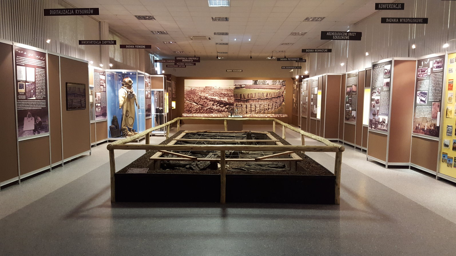 Interior of the Archaeological Musem in Biskupin, Poland